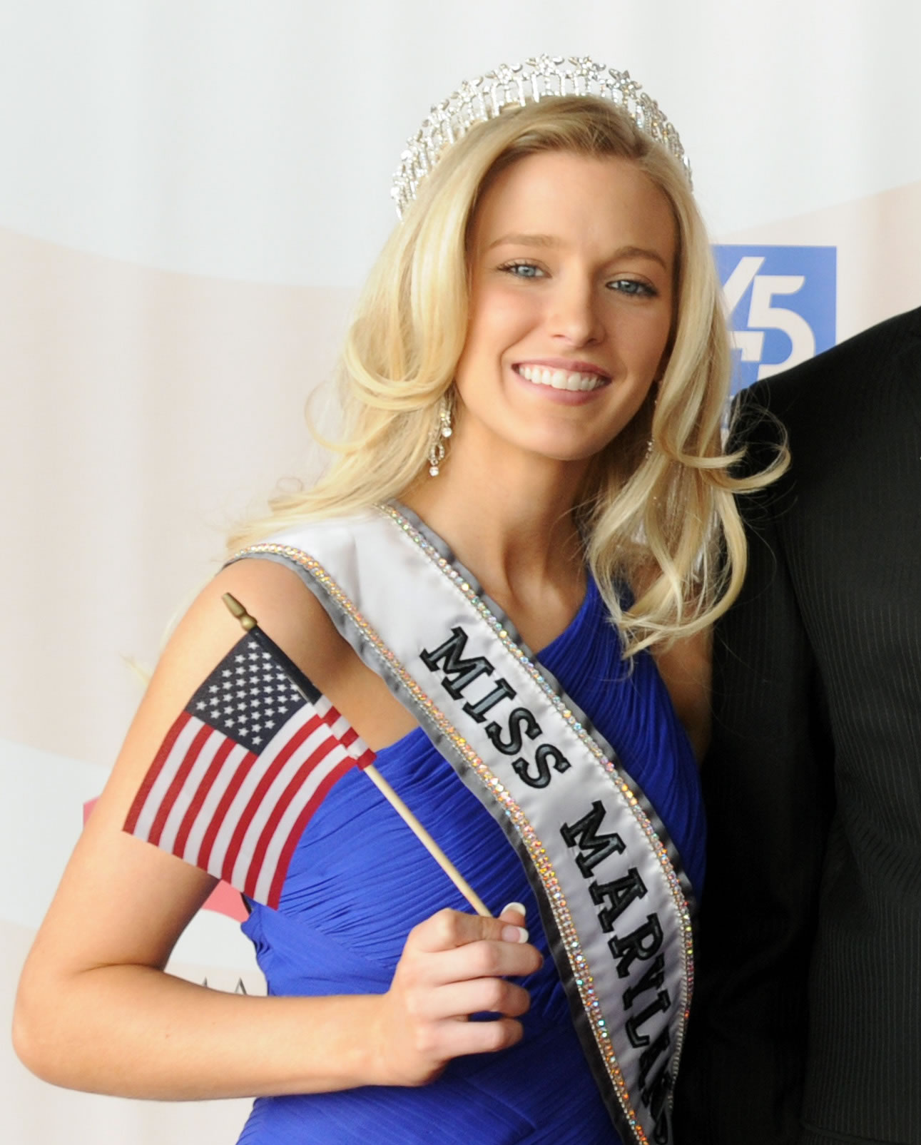 2011 VAlentines for Veterans Concert Photos. Veterans posed with Allyn Rose, Miss Maryland USA 2011 during the pre-concert reception.